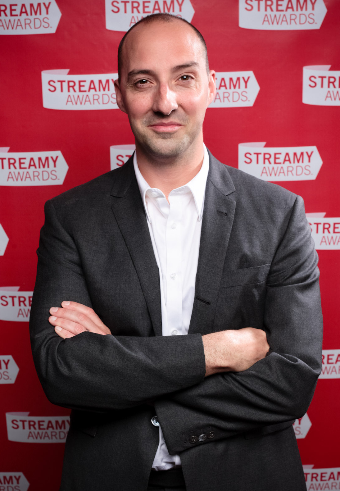 Tony Hale at the 2010 Streamy Awards